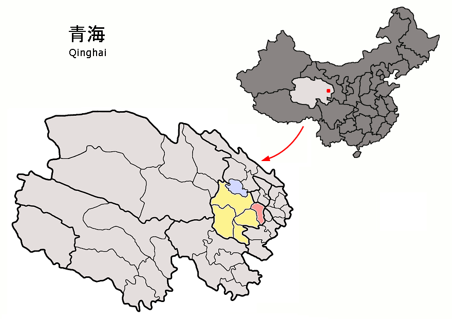 Location of Guide County (pink) and Hainan Prefecture (yellow) within Qinghai province of China Map drawn in september 2007 using various sources, mainly : Qinghai province administrative regions GIS data: 1:1M, County level, 1990 Qinghai Counties map from "Plateau Perspectives" (the limits of some county-level subdivisions may not be accurate)